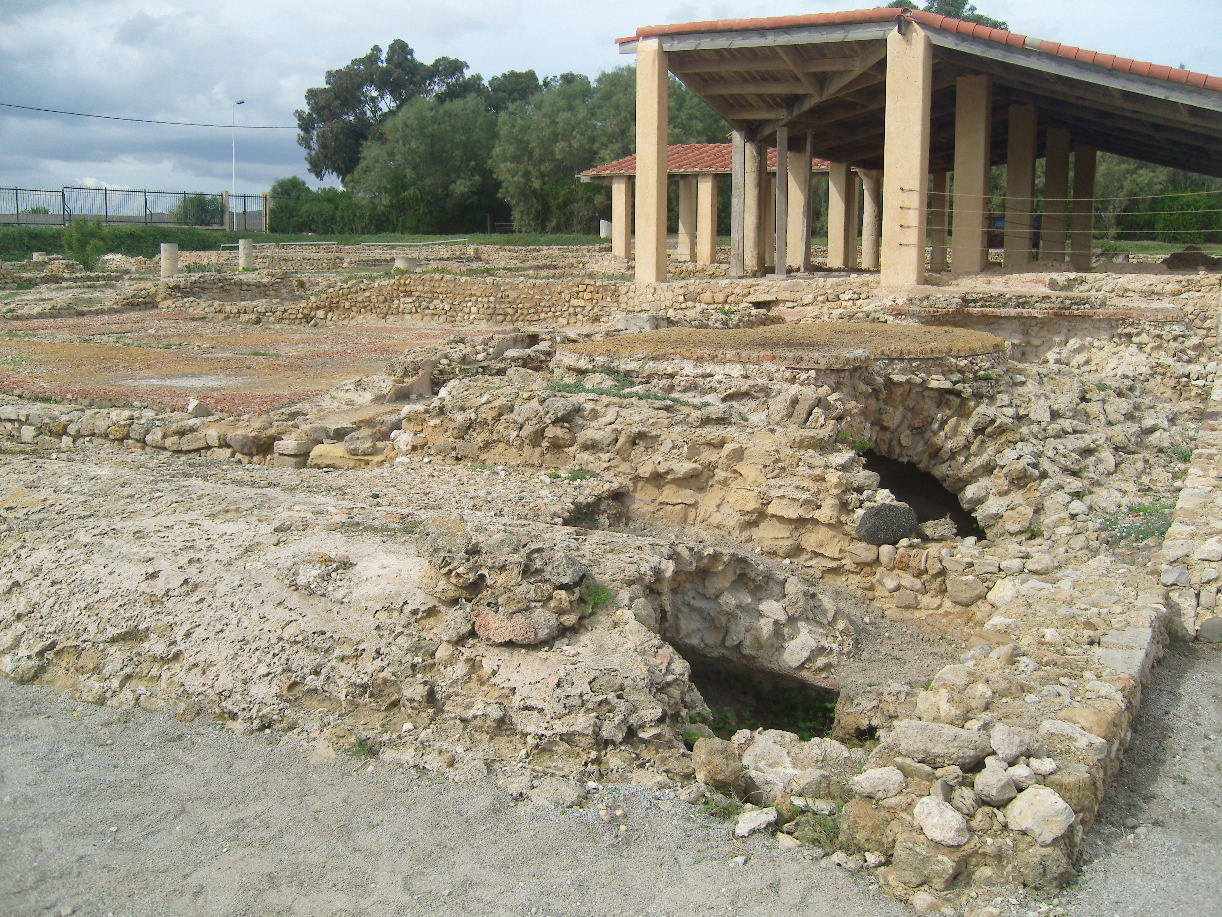 The fish-salting factories in Neapolis archeological site